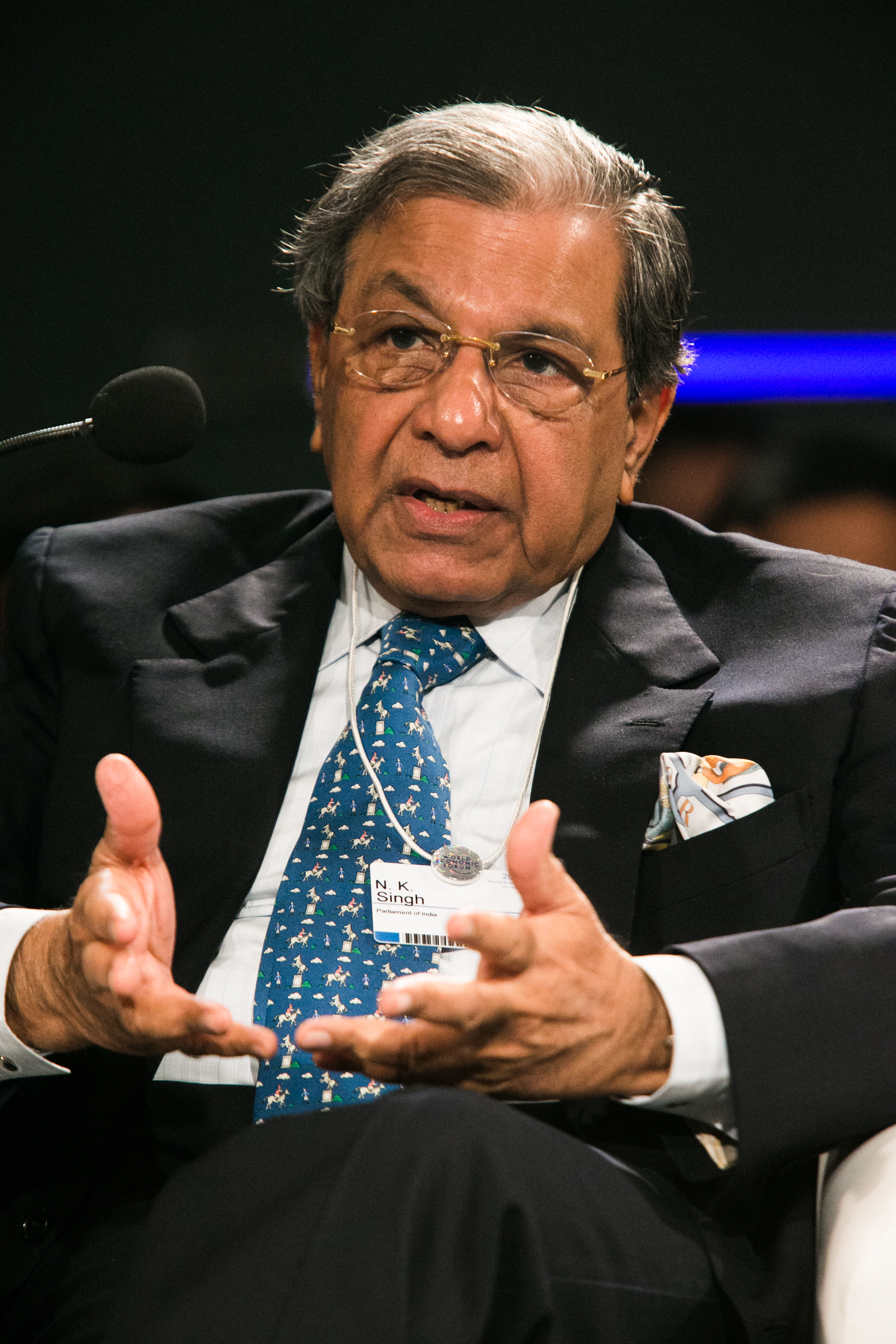 N. K. Singh, Member of Parliament, India; Global Agenda Council on India at the World Economic Forum on India 2012